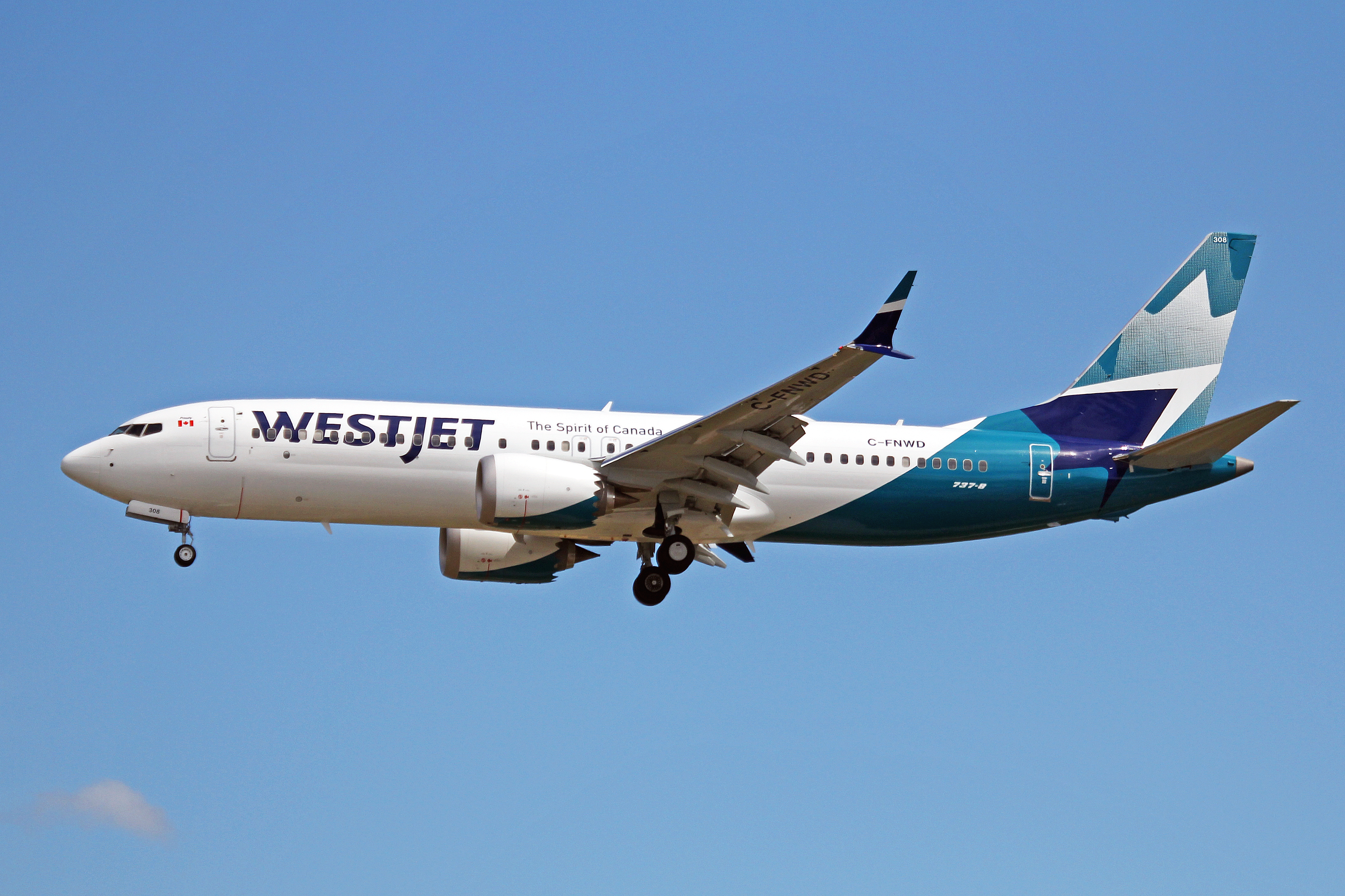 WestJet's 1st Boeing 737-Max 8 painted in their new livery making it's 2nd visit to Vancouver.